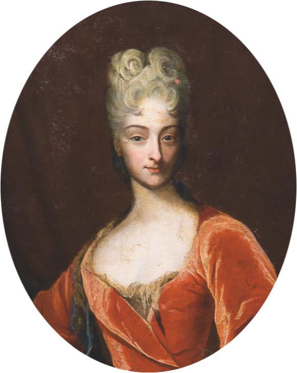 Princess Anna Maria of Liechtenstein